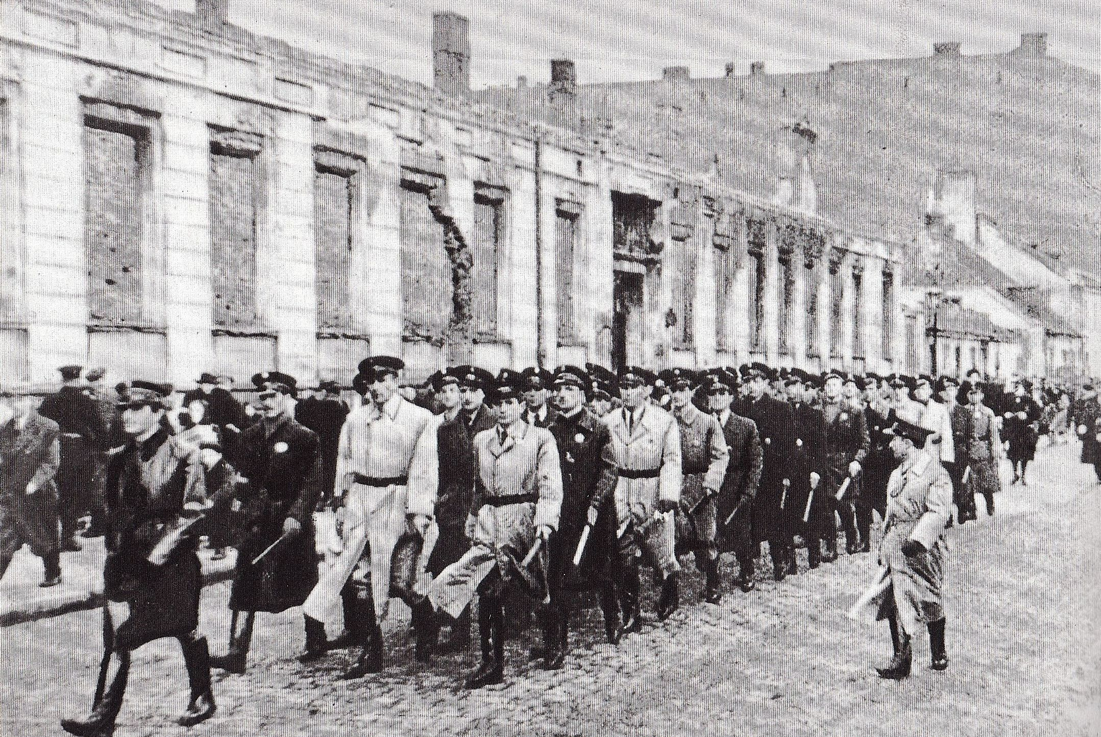 Detachment of Jewish Ghetto Police in the Warsaw Ghetto (Grzybowska Street)